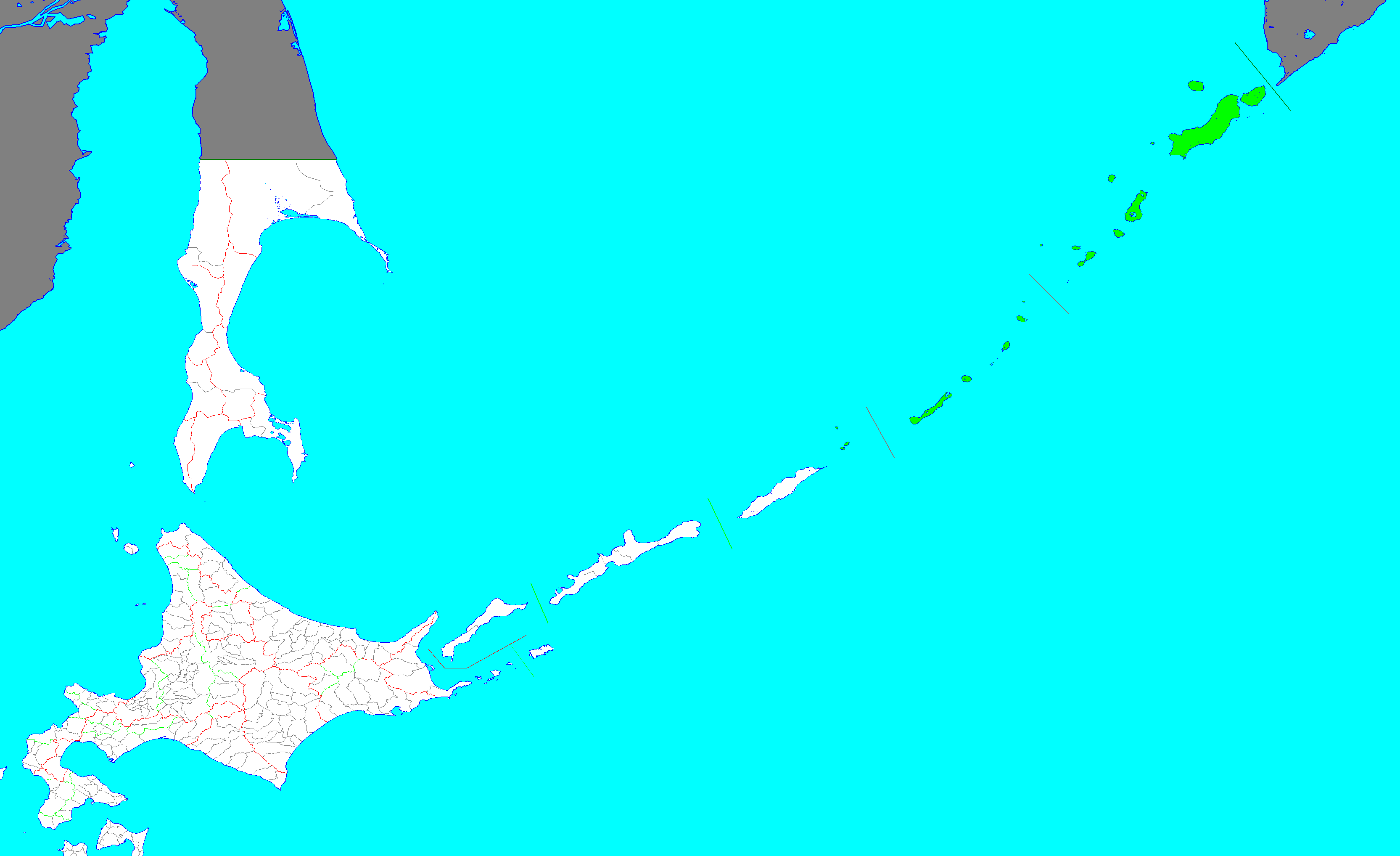 area of Chishima provinces of Hokkaido in Japan.green:1876/01/14 added. palegreen:1886/01/06 added.